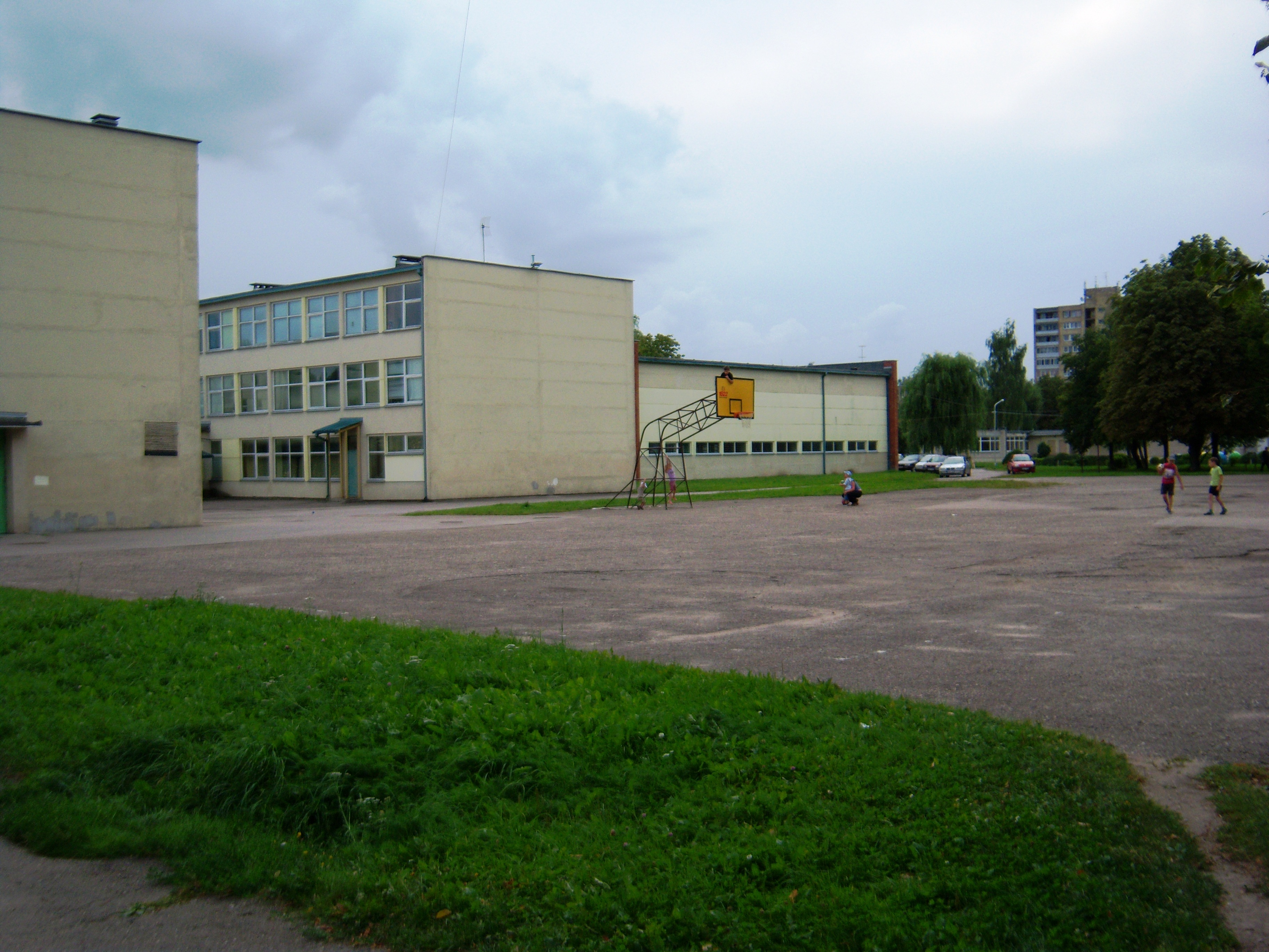 Kaunas Vyturys Catholic Secondary School, Lithuania